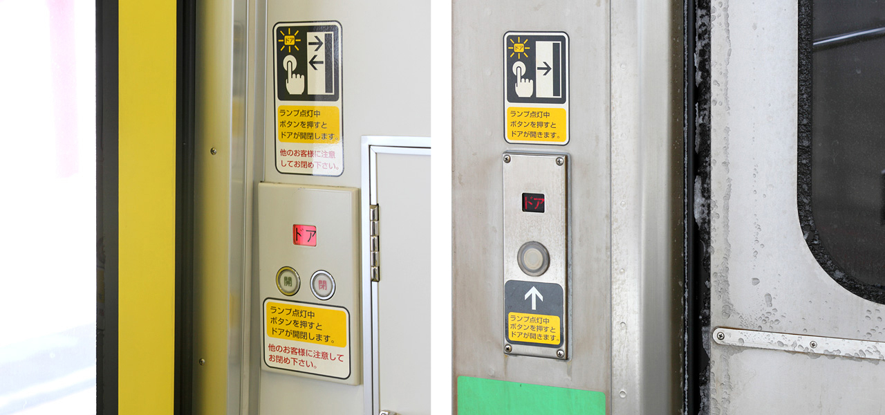 Manual door switches for passengers of JR Hokkaido 731 series EMU.